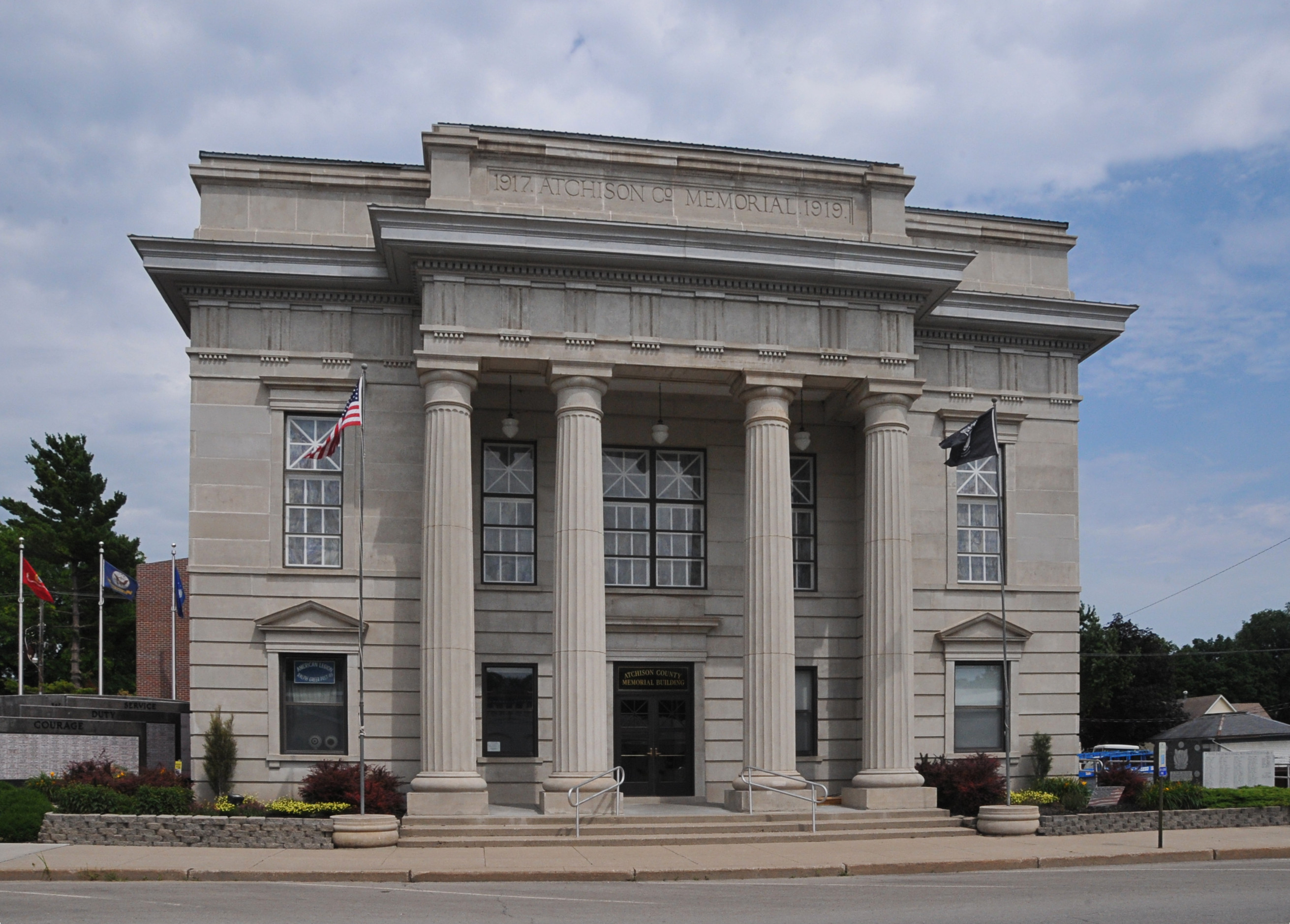 CONCEIVED IN 1919 AS A MEMORIAL TO ATCHISON COUNTY SOLDIERS WHO SERVED IN WORLD WAR I, THE BUILDING IS A GOOD REPRESENTATIVE EXAMPLE OF THE CLASSICISM WHICH PREVAILED IN MISSOURI PUBLIC ARCHITECTURE OF MODEST SIZE BETWEEN THE WORLD WARS.